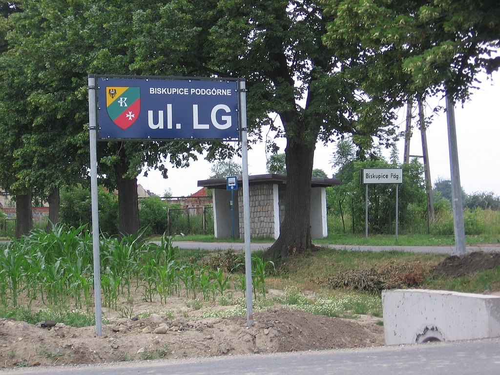 "LG"-street in Biskupice Podgórne near Wrocław, Poland, investment plant of Korean LG factory of liquid crystal displays in Central Europe.